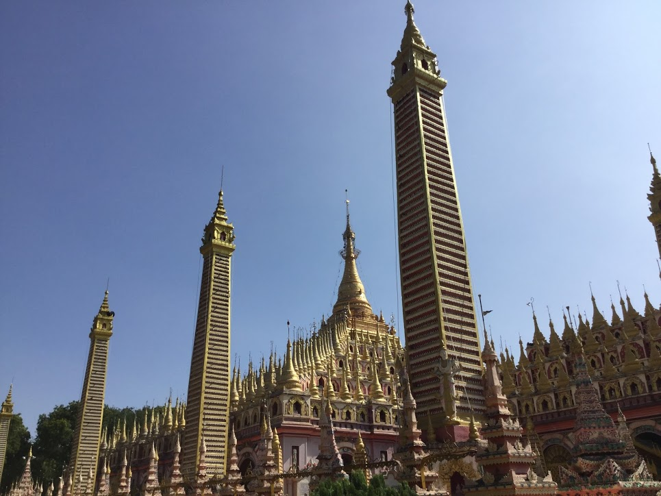 Thanboddhay Paya, Monywa, Sagaing, Myanmar